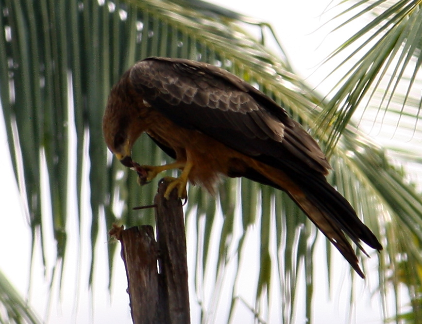 A black kite consuming food in Thiruvananthapuram, India, Nov 2014